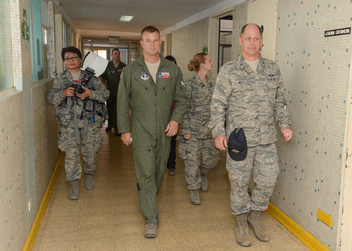 Members from the 149th Fighter Wing, Texas Air National Guard, along with the other countries participating in the Salitre 2014, visit the children’s ward at the Leonardo Guzman Regional Hospital, Antofagasta, Chile, to distribute gifts and bring a few moments of joy to the awaiting hospitalized children Oct. 11. Salitre is a Chilean-led exercise where the U.S., Chile, Brazil, Argentina and Uruguay focus on increasing interoperability between allied nations. (Air National Guard photo by Senior Master Sgt. Miguel Arellano/released)